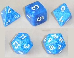 Rework from File:BluePlatonicDice.jpg